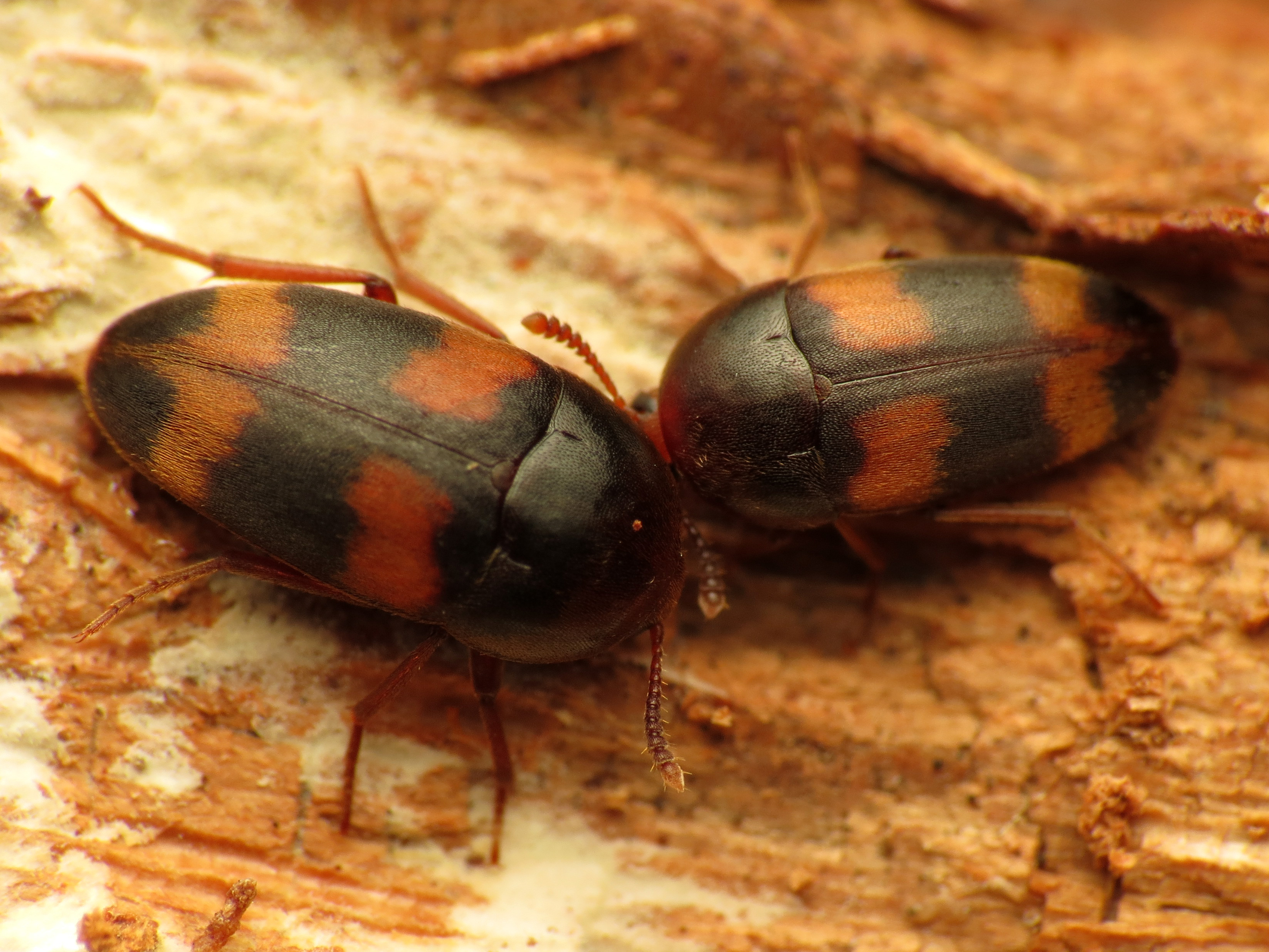 Holostrophus bifasciatus. Rock Creek Park, Washington, DC, USA